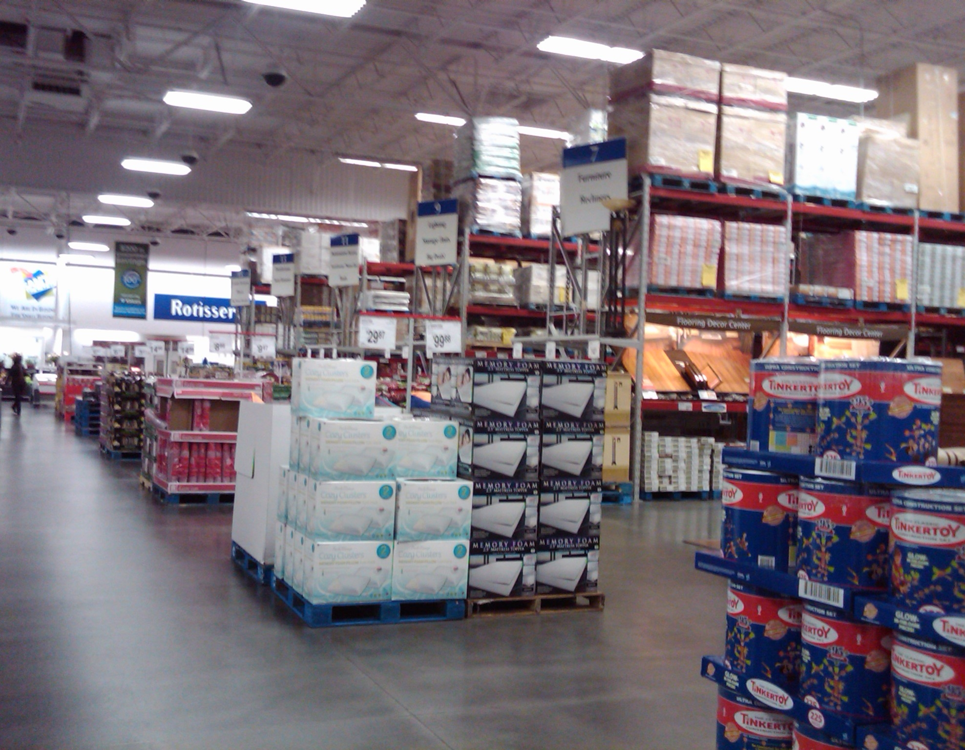 Interior of a Sam's Club in California.